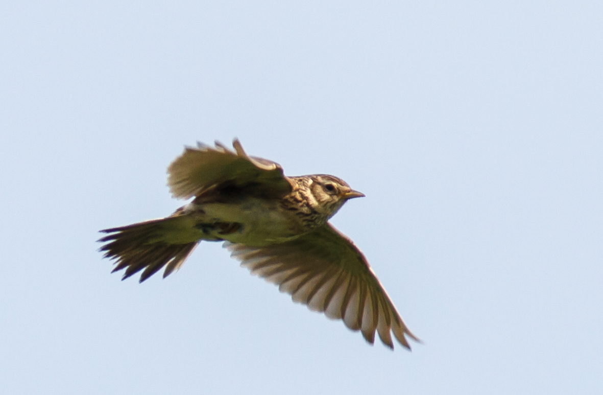 A Eurasian Skylark flying in Midtjylland, Denmark.